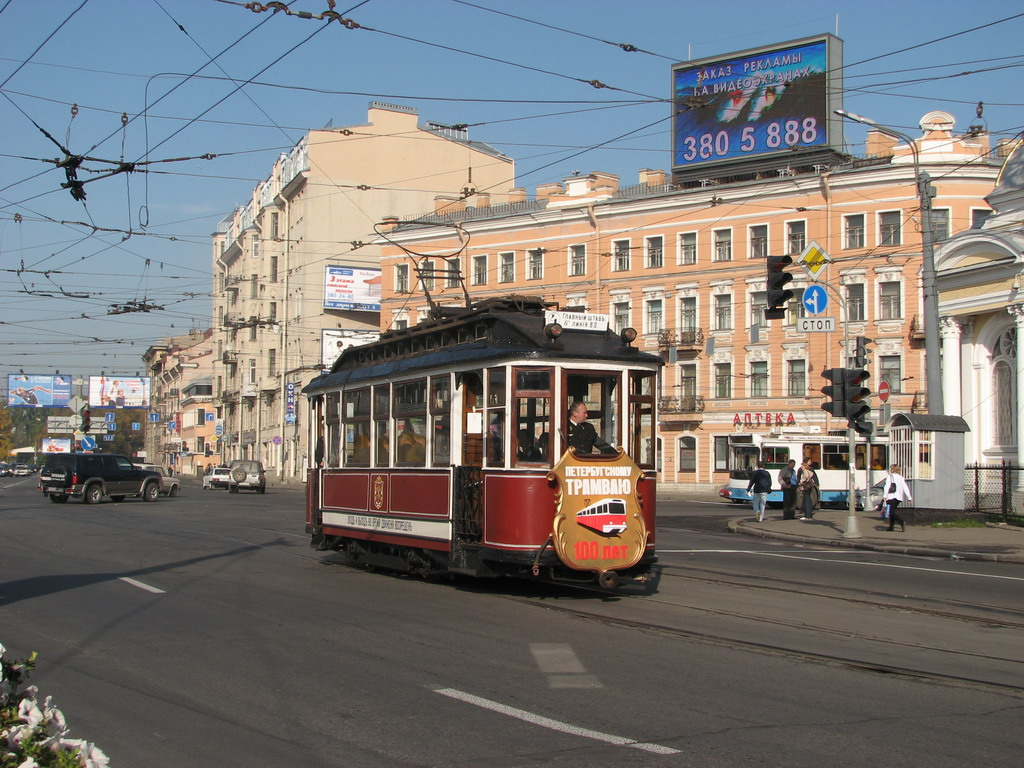 Brush tram at Dobrolyubova prospect in Saint Petersburg